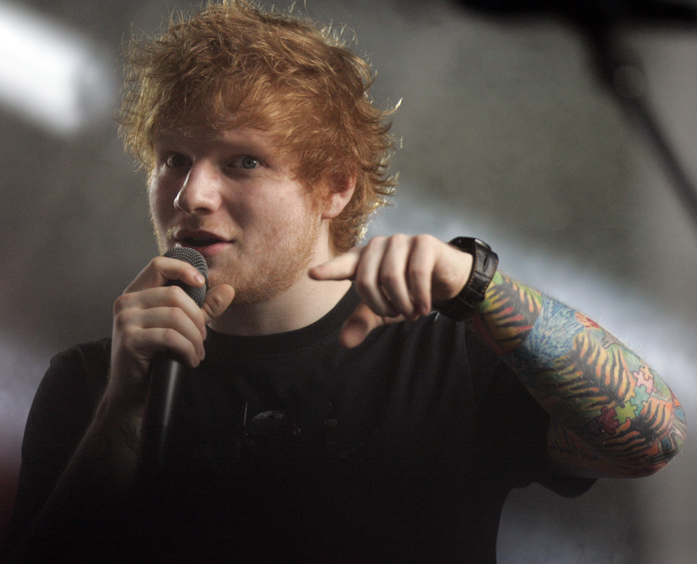 Ed Sheeran performs for Channel Seven's morning program Sunrise and Nova969 in Sydney 2013.